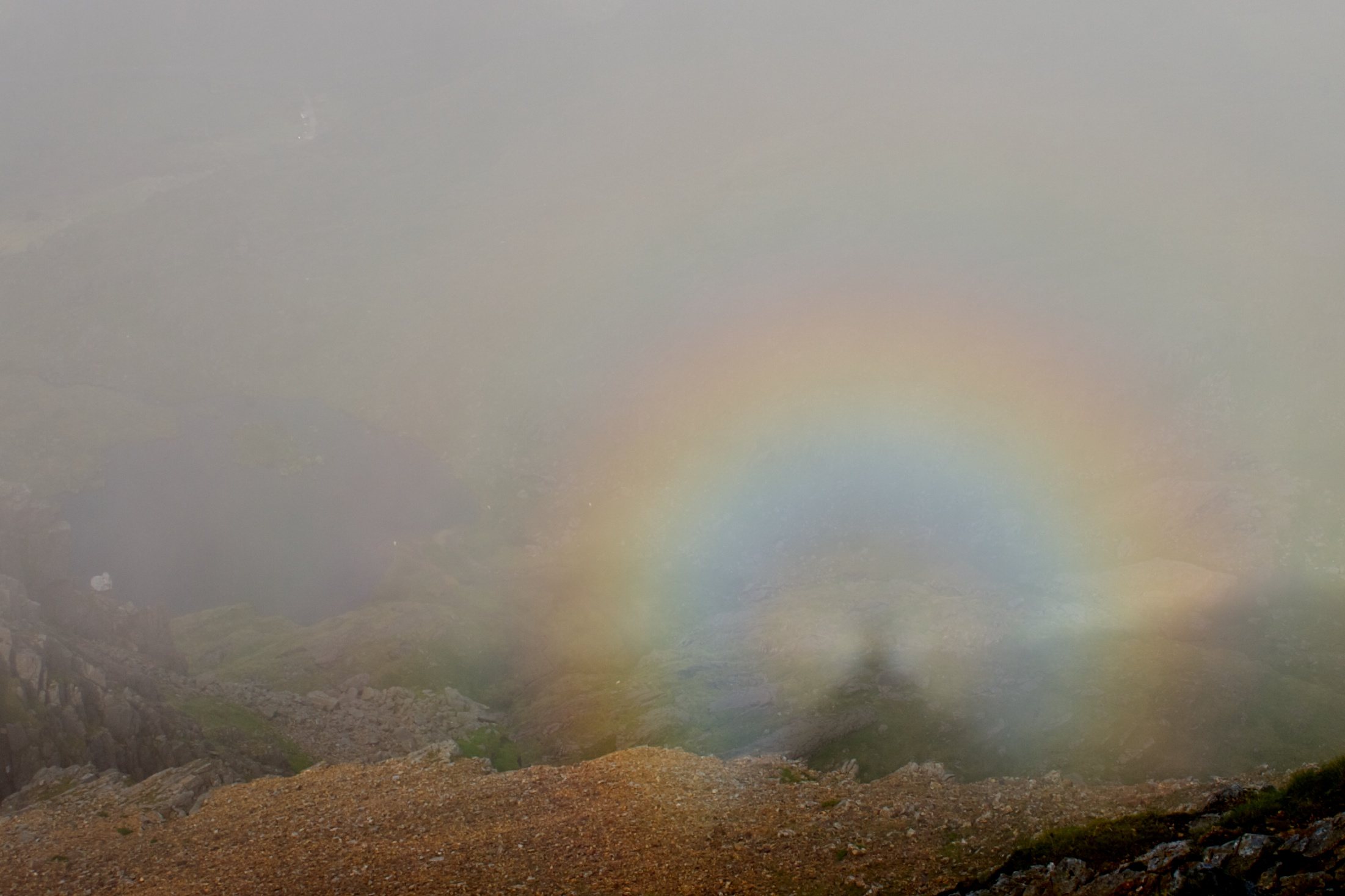 A solar glory and Brocken spectra from the top of Crib Goch.